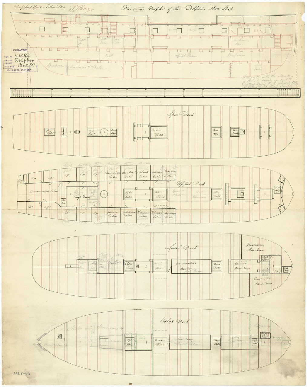 Plan showing the inboard profile, spar deck, upper deck, lower deck, and orlop deck of the Dolphin (1814), a 50-gun Fifth Rate, as converted to a Storeship. Signed by William Stone [Master Shipwright, Deptford Dockyard, 1813-1830].